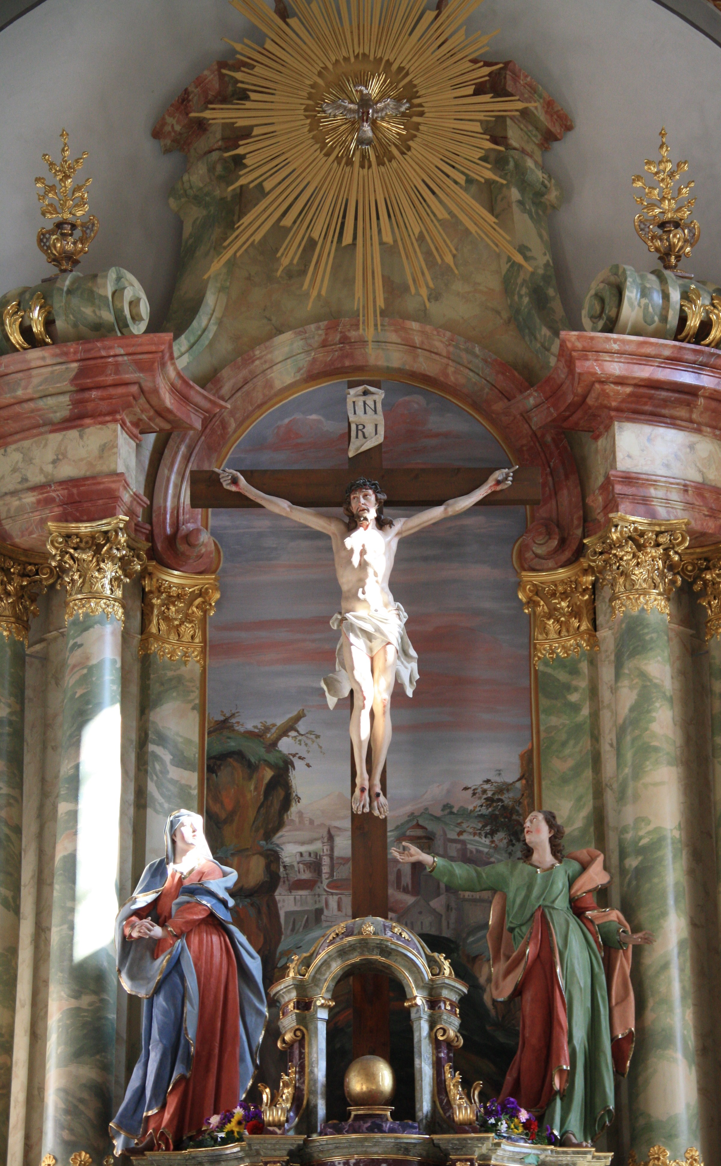 Austria, Tyrol, Telfes, Hl. Pankratius. Above the high altar a crucifix by Johann Perger.